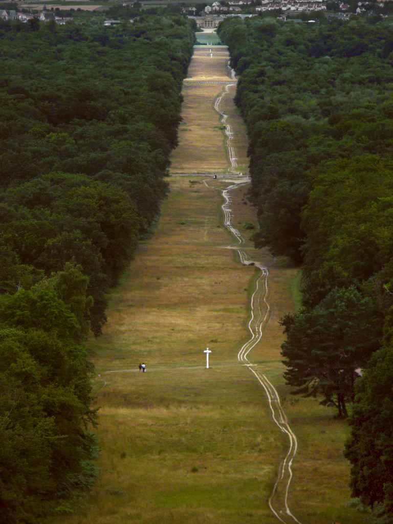 Château de Compiègne, view from the forest